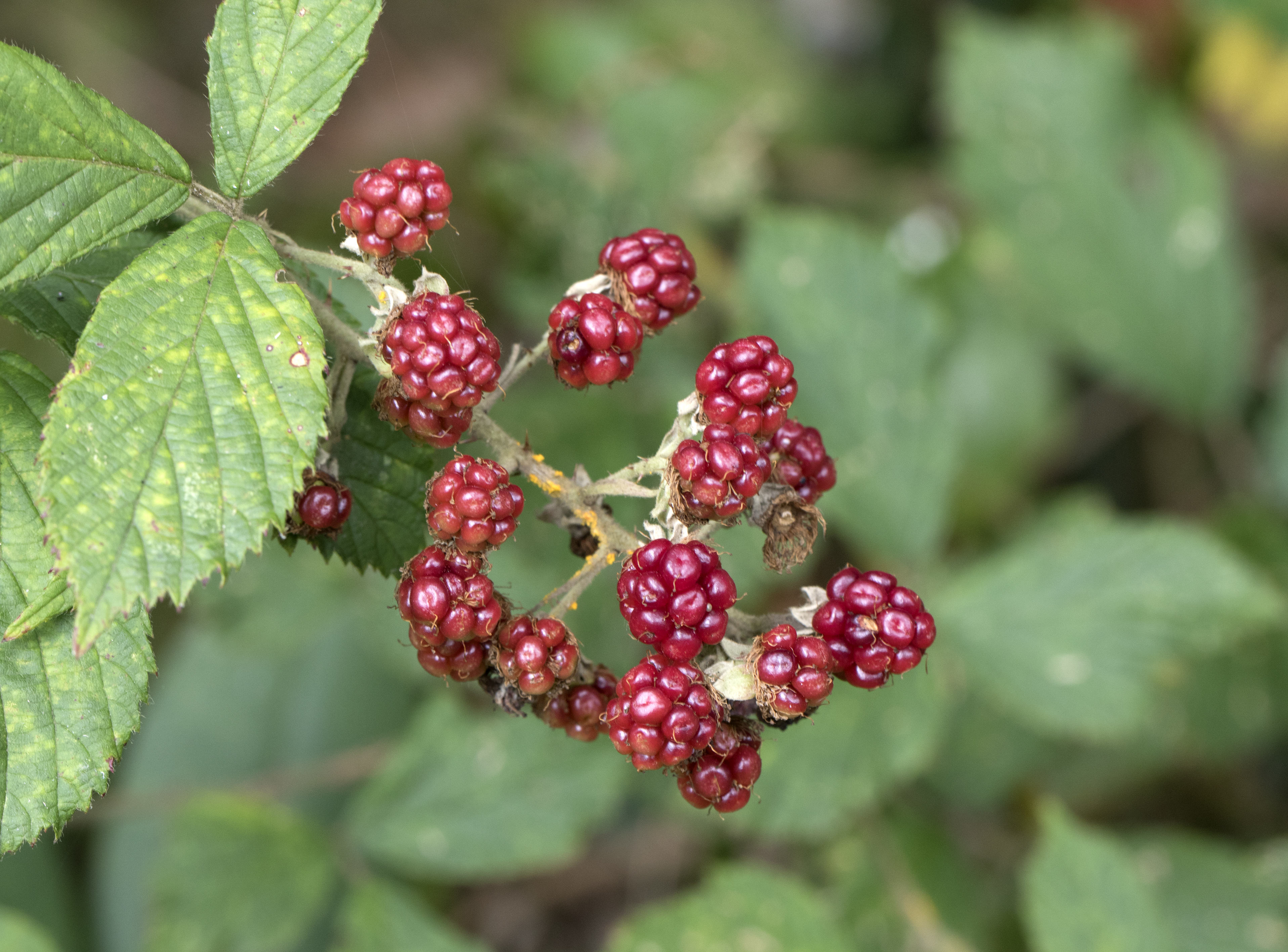 Berries of a wild blackberry (Rubus canescens) meyveleri. Espiye-Giresun, Turkey